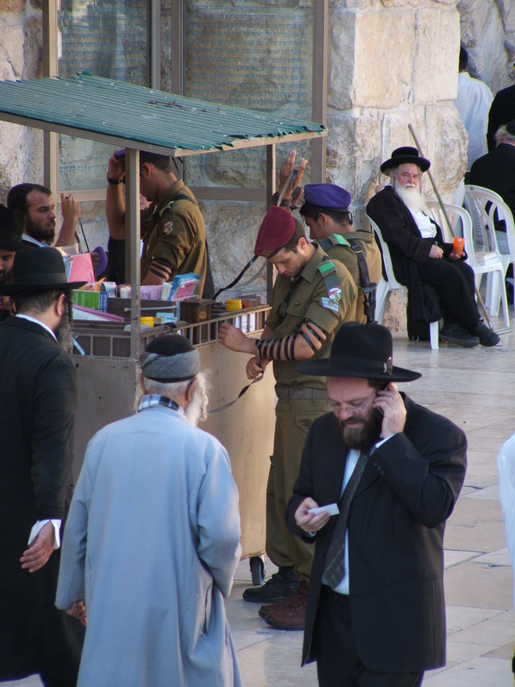 An Israeli soldier lays tefillin at the Western Wall (Kotel).